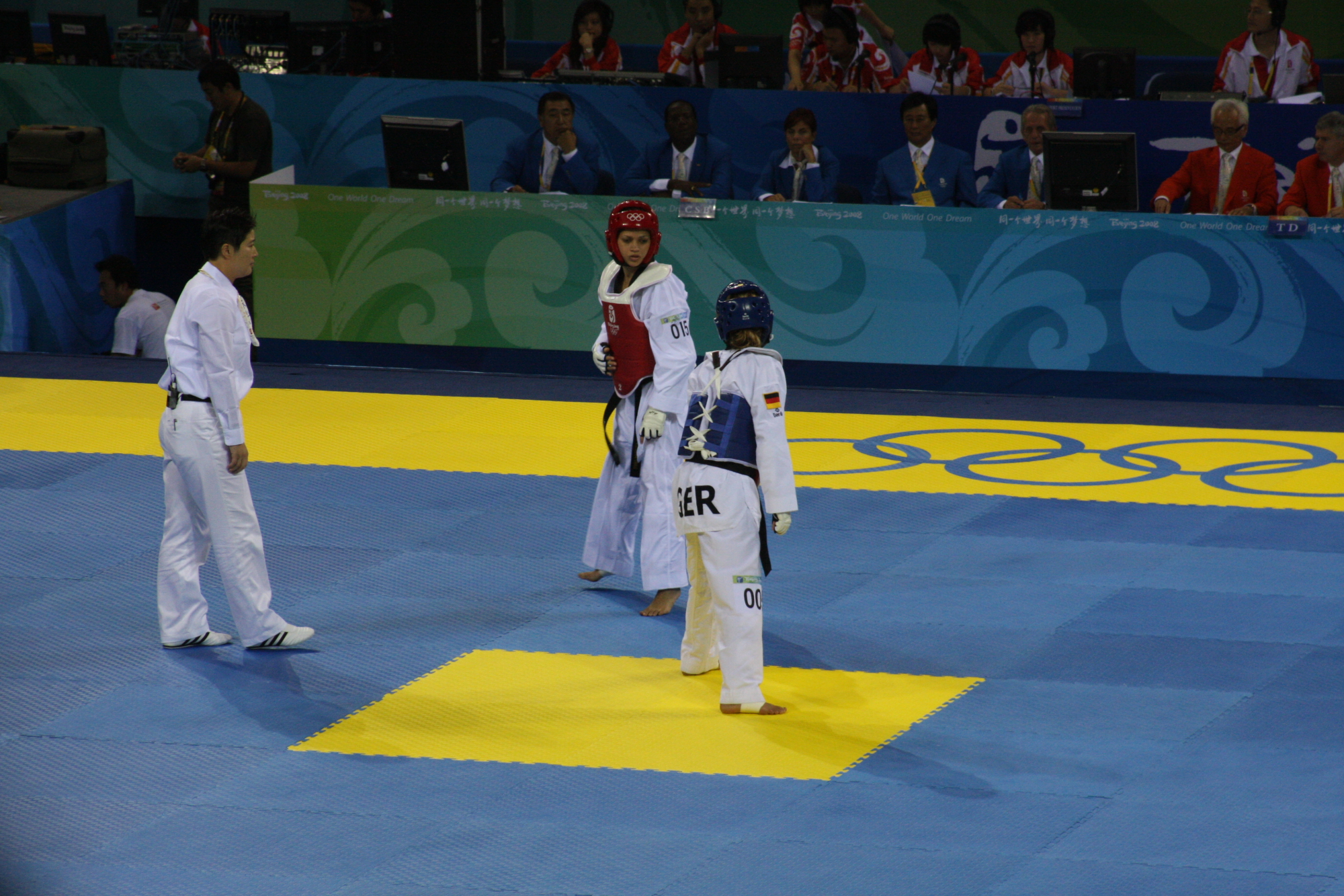 2008 Summer Olympics Taekwondo - Sumeyye Gulec (GER, blue) v. Dalia Contreras (VEN, red)